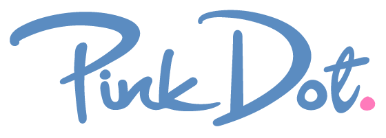 Logo for Pink Dot Delivery and Market